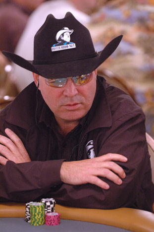 Andy Black in 2006 World Series of Poker - Rio Las Vegas.